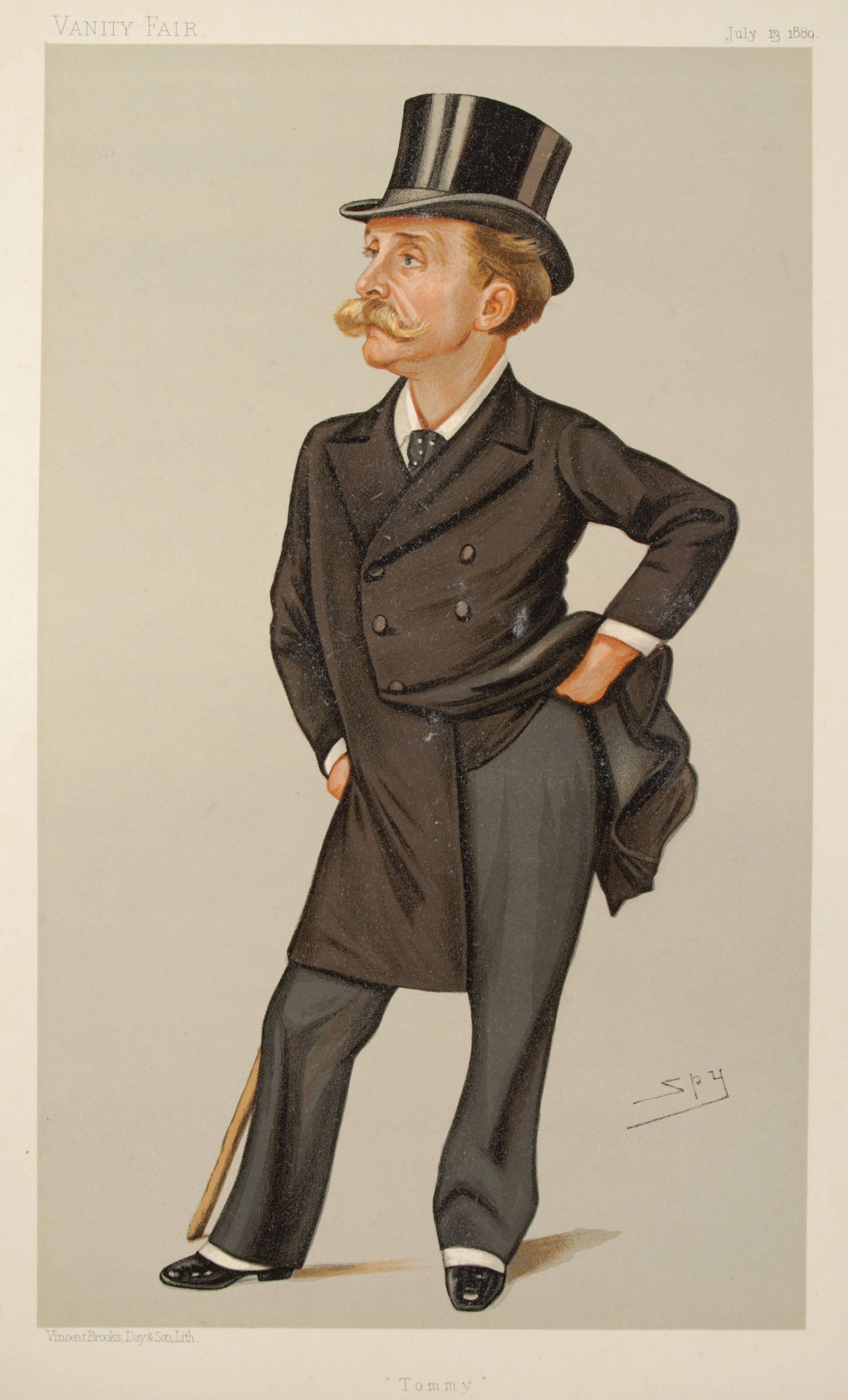 Men of the Day No.431: Caricature of Mr. Thomas Gibson Bowles, founder of Vanity Fair.. Caption reads: "Tommy"